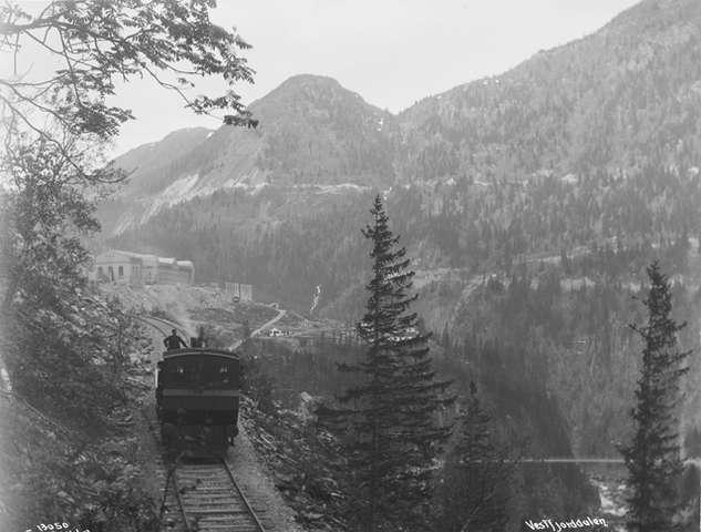 Rjukanbanen from Rjukan towards the powerplant at Vemork, Norway.